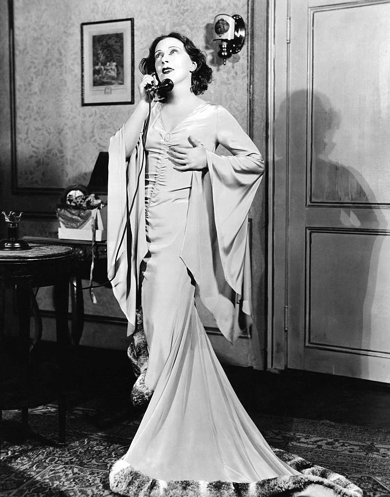 Promotional photograph of Eugenie Leontovich in the original Broadway stage production of Grand Hotel Caption reads as follows: Season's Distinguished Performances Miss Eugénie Léontovitch [sic], who gives a magnificent performance as Grusinskaia, the dancer, in Herman Shumlin's production of "Grand Hotel"